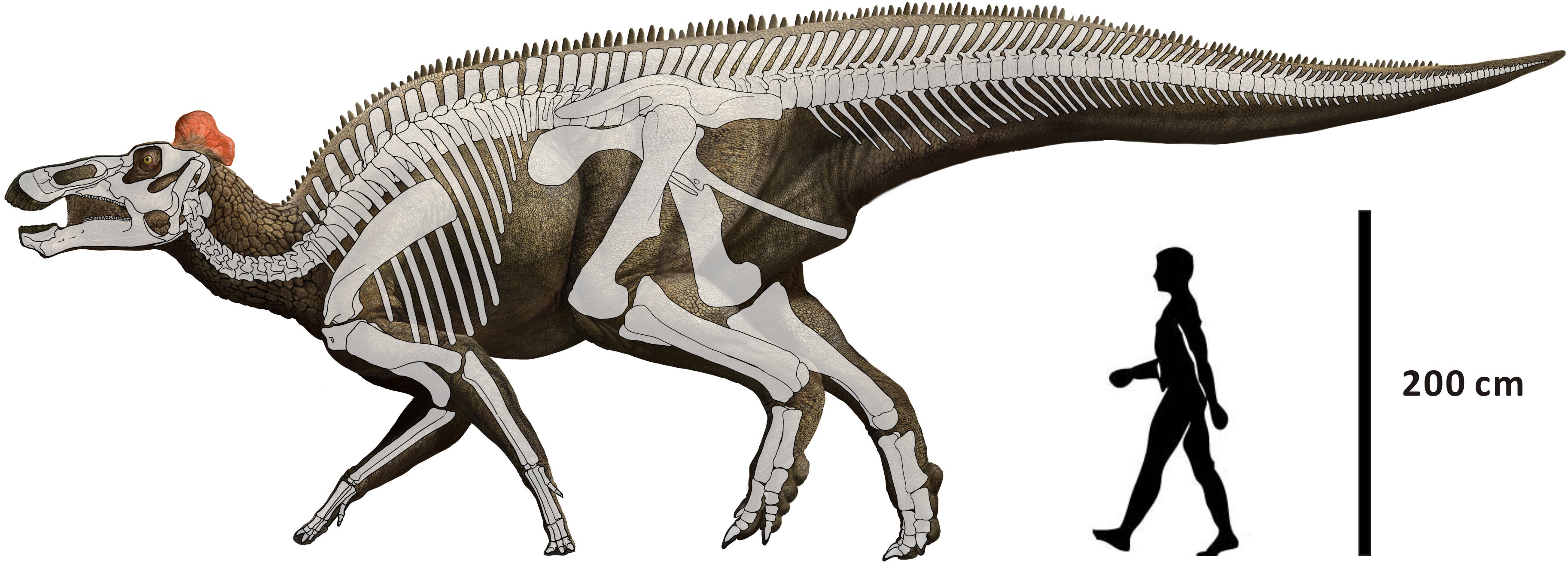 Original figure caption: Reconstruction of Edmontosaurus regalis mainly based on CMN 2288, CMN 2289, CMN 8399, and UALVP 53722 (modified from Campione and Evans [8]).